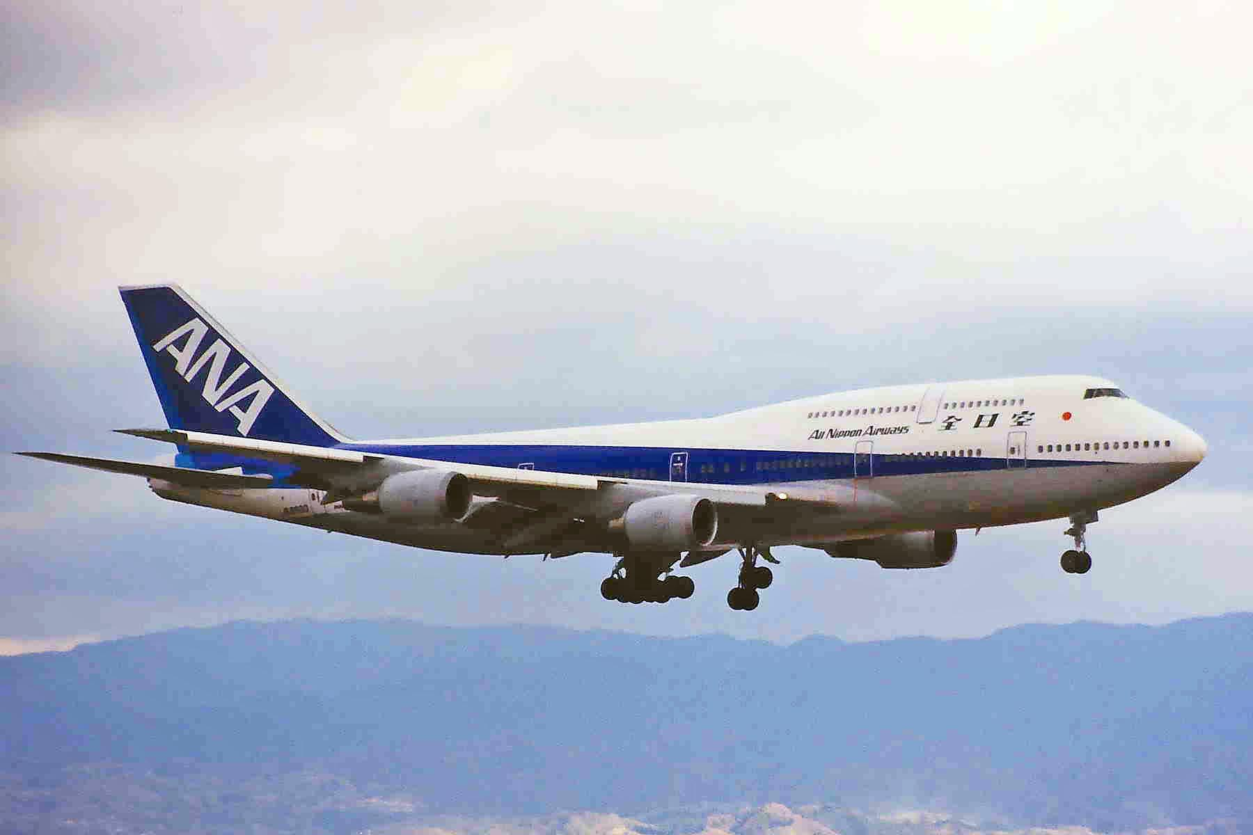 Domestic 747s - No winglets.